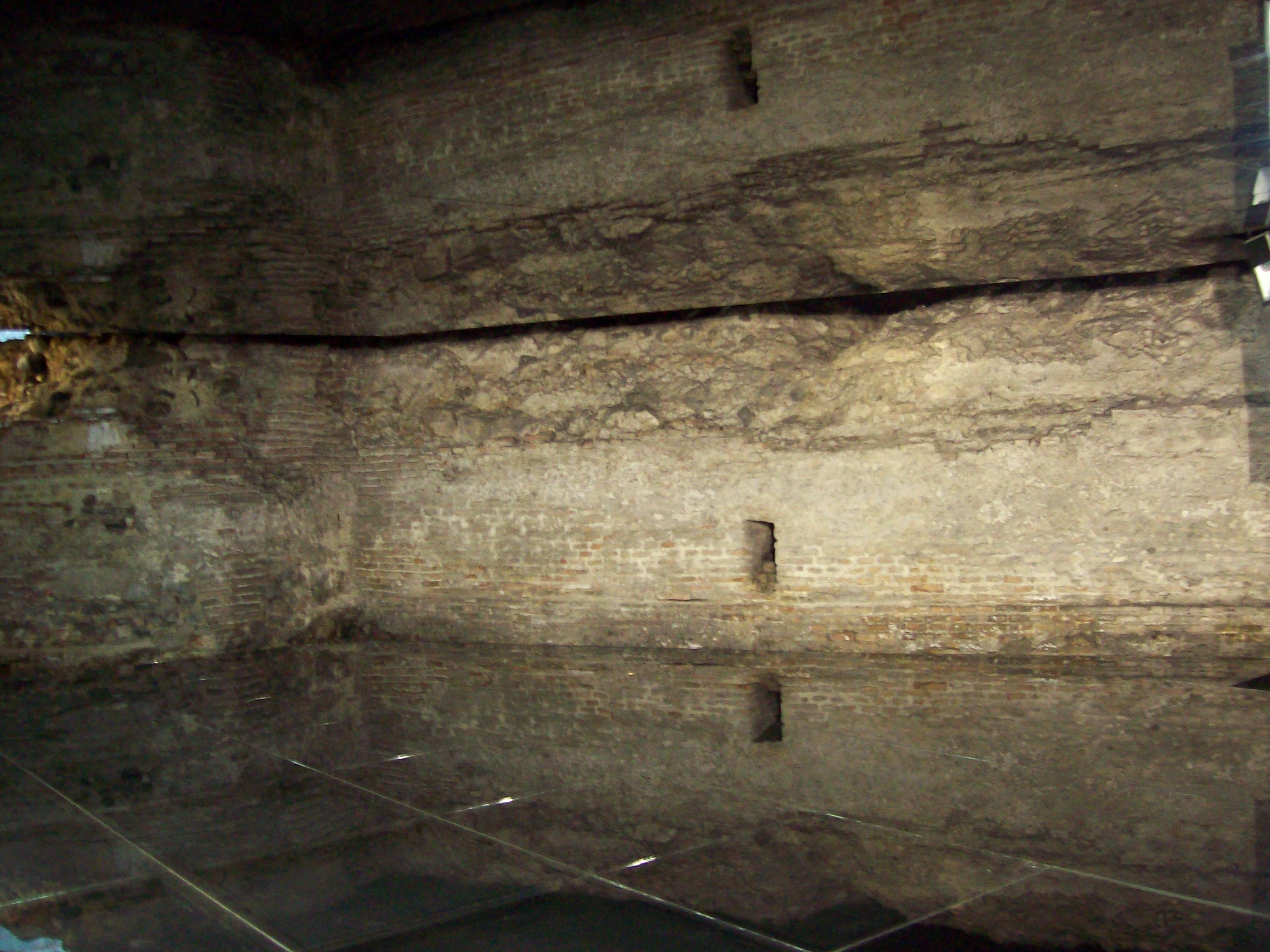 Old port wall, Málaga, Spain